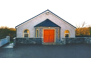 Photograph of the front of the Associated Presbyterian Church in Stornoway